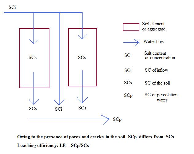 Explanation of leaching efficiency of the soil